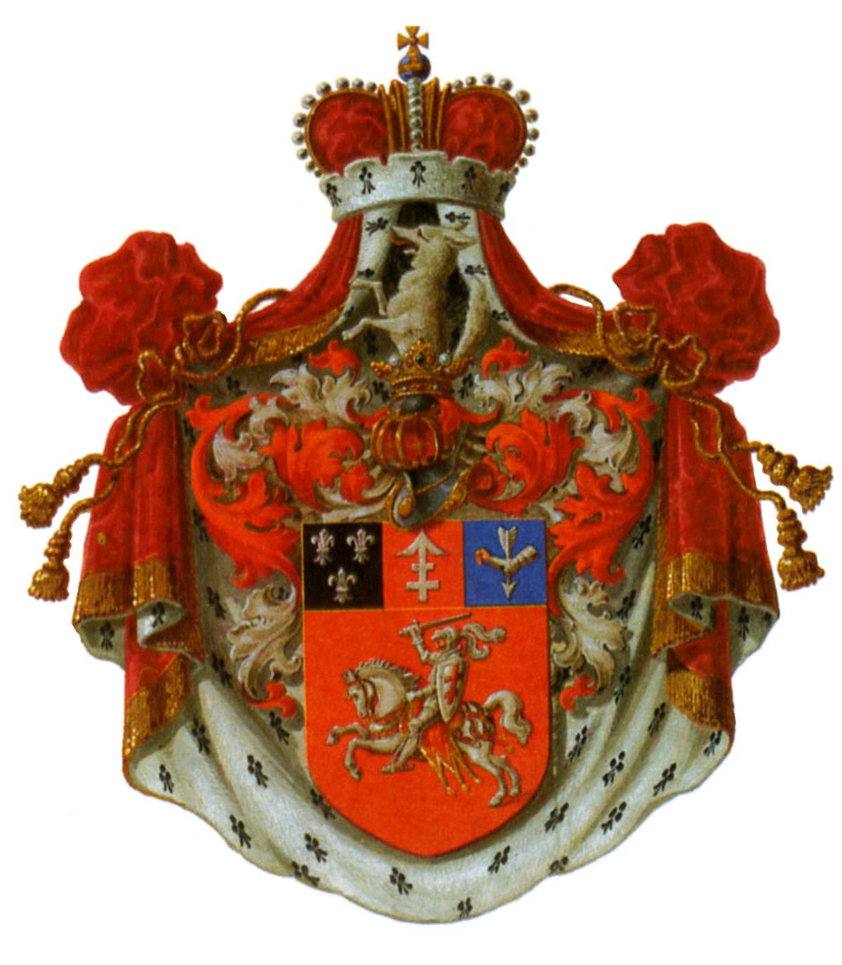 Grand Coat of arms of Sapiega family (Lithuania)